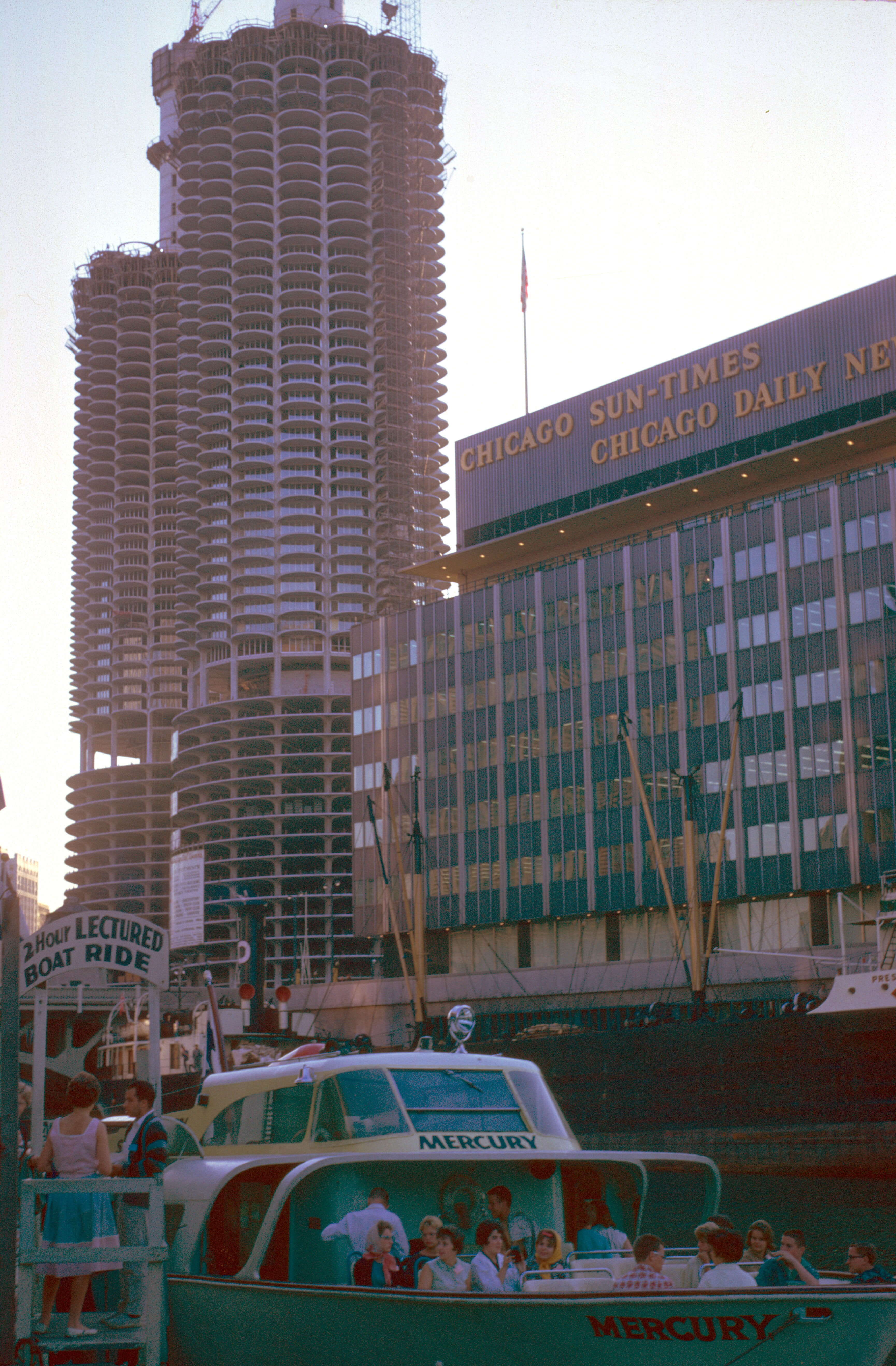 Chicago, Marina Towers , Chicago Sun Times Building, Chicago Daily News building